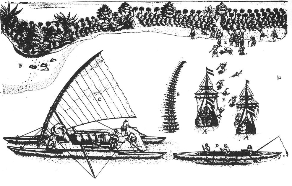 Woodcut by Gilsemans (?) from ship diary by Abel Tasman, showing both ships in the bay (A), the inhabitants of Tongatapu with presents (B and E), showing their cano (C), how they fish (D), and where the king lives (F).